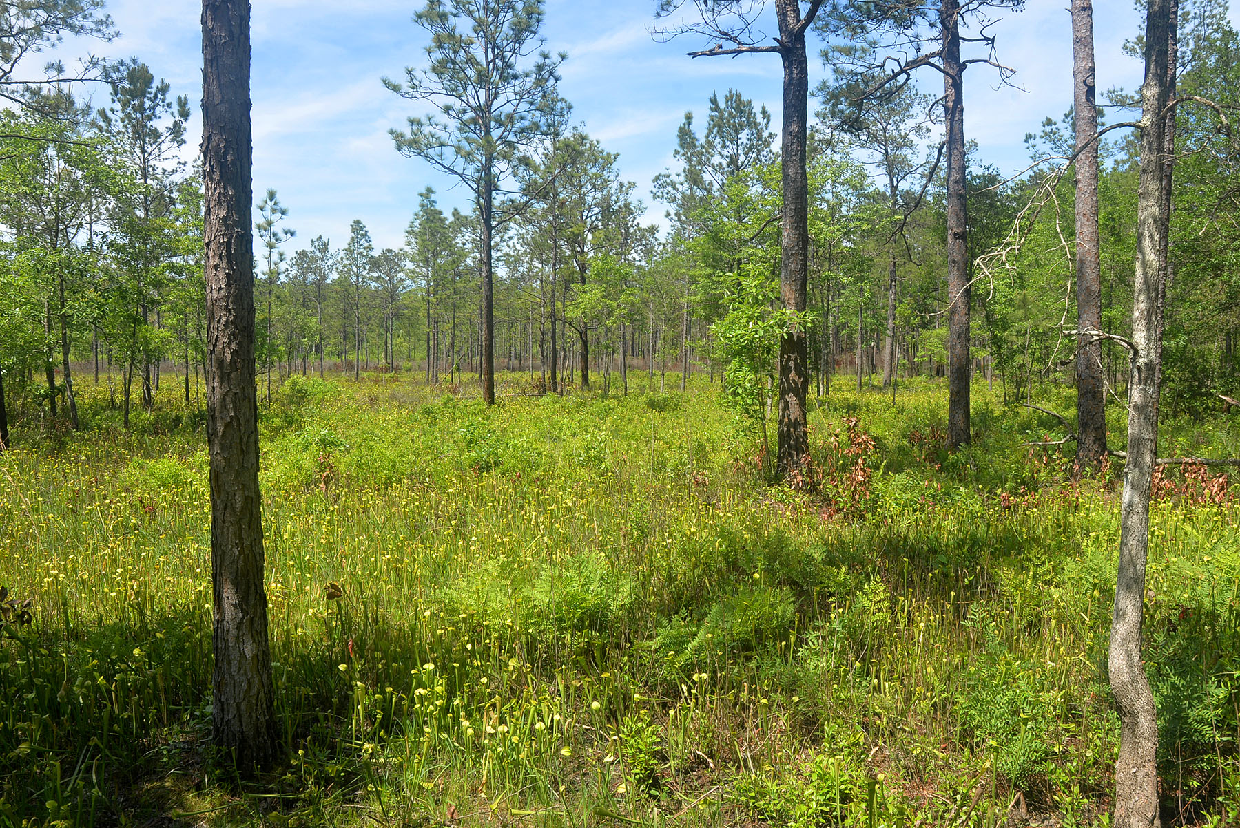 Savanna wetlands with pitcher plants (Sarracenia alata) growing in the open understory. Big Thicket National Preserve, Turkey Creek Unit, Tyler Co. Texas; 1 May 2020